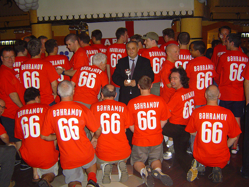 Football England teams supporters surrounding the son of Tofiq Bahramov before an Azerbaijan-England match in Baku in October 2004. Bakhramov was the linesman ("the Russian linesman") during the 1966 Wolrd cup final who validate the famous english third goal during the extra time.